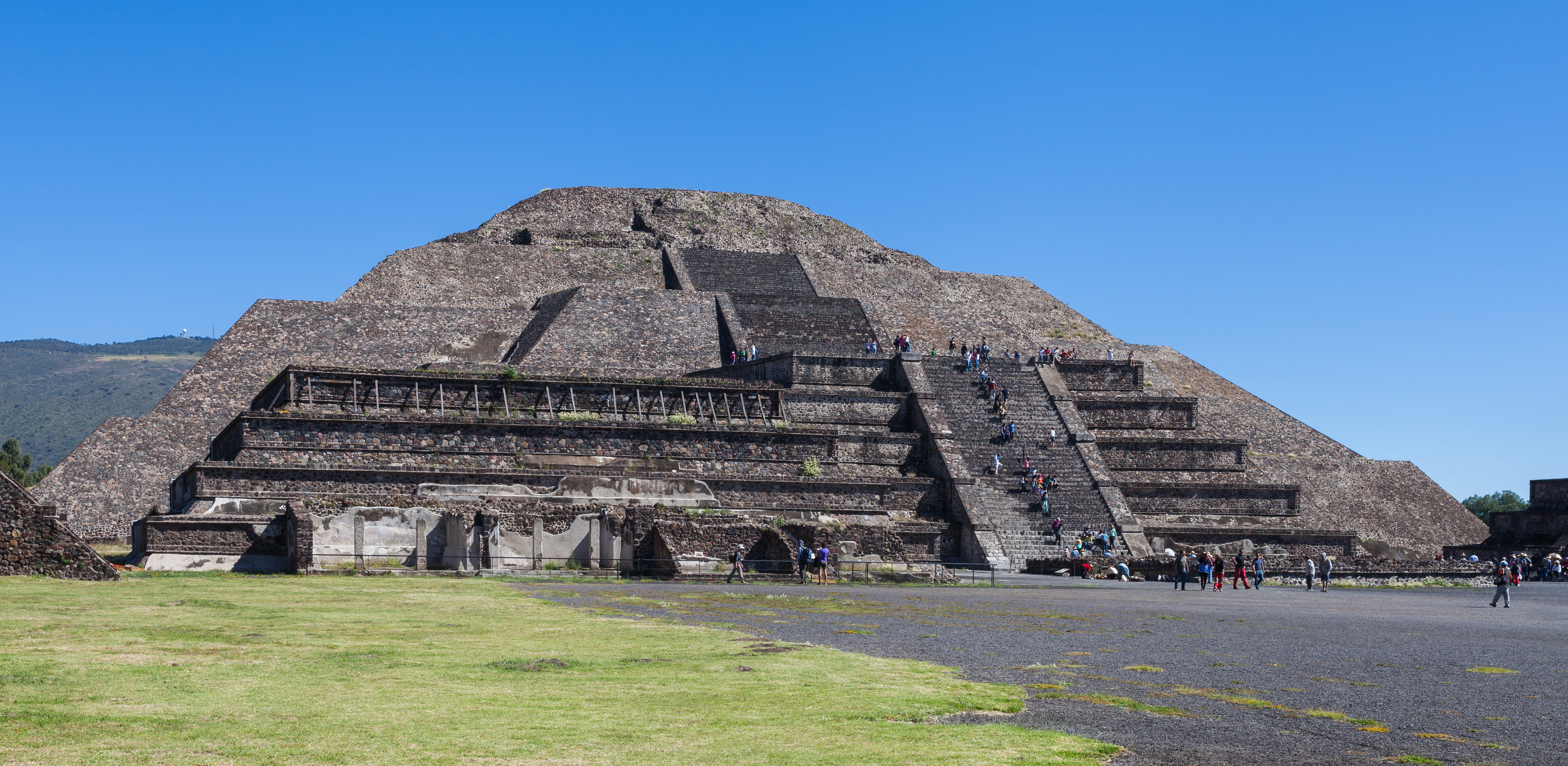 The Pyramid of the Moon in Teotihuacan, México